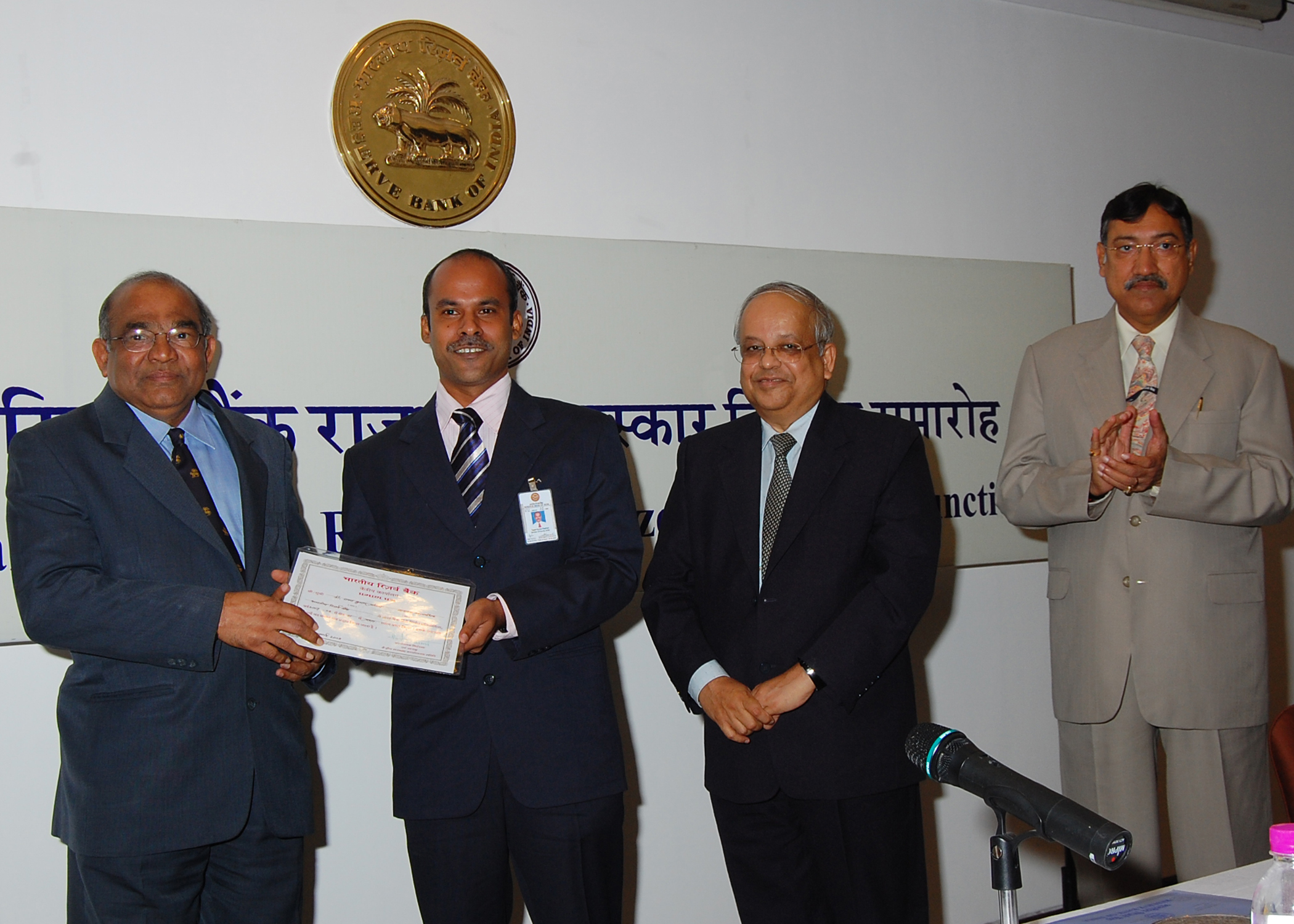 Tapan Kumar Pradhan receiving first prize for Inter Bank Hindi essay competition from Reserve Bank of India's governor.